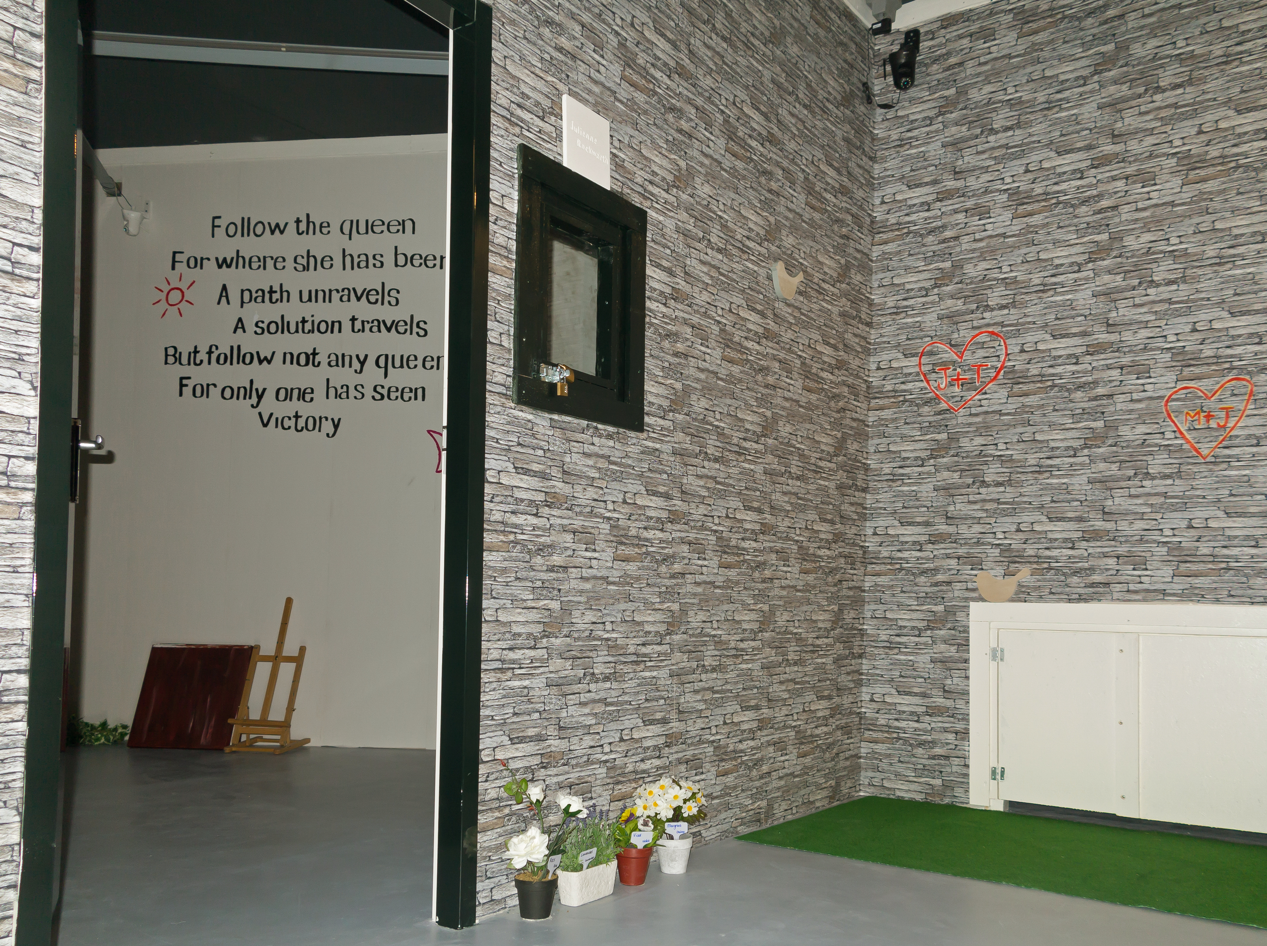 Utrecht, Escape Room the Loophole